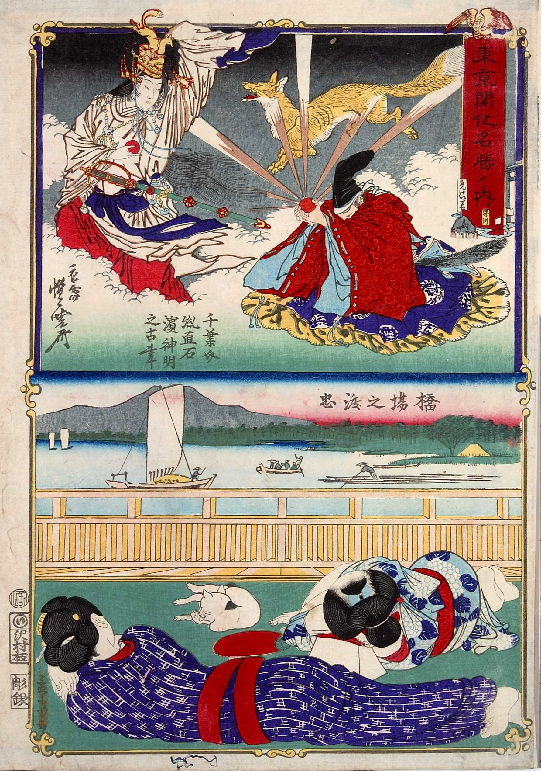 Picture of Chiba Tanenao